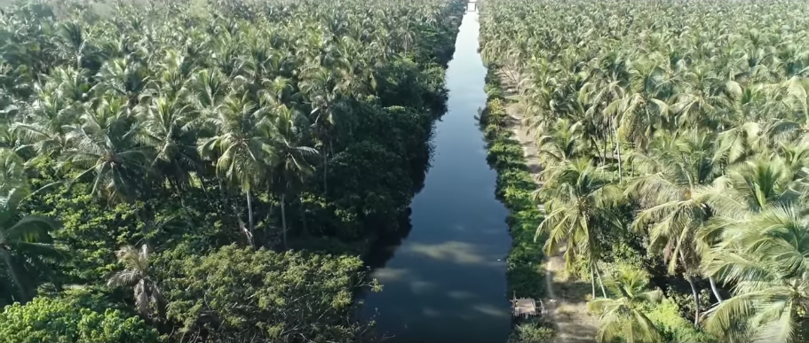 A canal in Tirur, Kerala, India